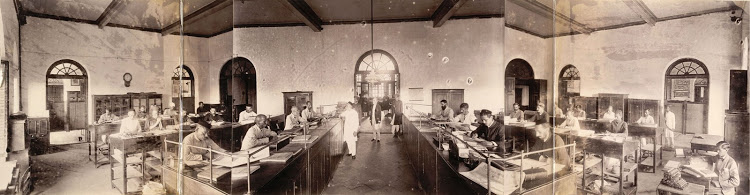 Print by E.O.S. and Company of employees of the Times of India, Mumbai, taken on the occasion of the newspaper's Diamond Jubilee (60 years), November 1898. The album contains the text of an address read at the Jubilee celebrations by F.A. Periera, Chief Clerk of the Job Department dedicated to the editor T.J. Bennett and the managing proprietor F.M. Coleman. It includes the following extract, "There has been a steady increase in the number of workmen from 200 to about 800. In type, presses, machines, binery and casting materials the establishment has so much increased that it is second to none in India. The paper is so ably conducted that we might say, with pardonable pride, that it has become a power in the Empire. It's circulation has immensely increased, and there is hardly any city in India in which it is not read, and it also has a large circulation in Europe."